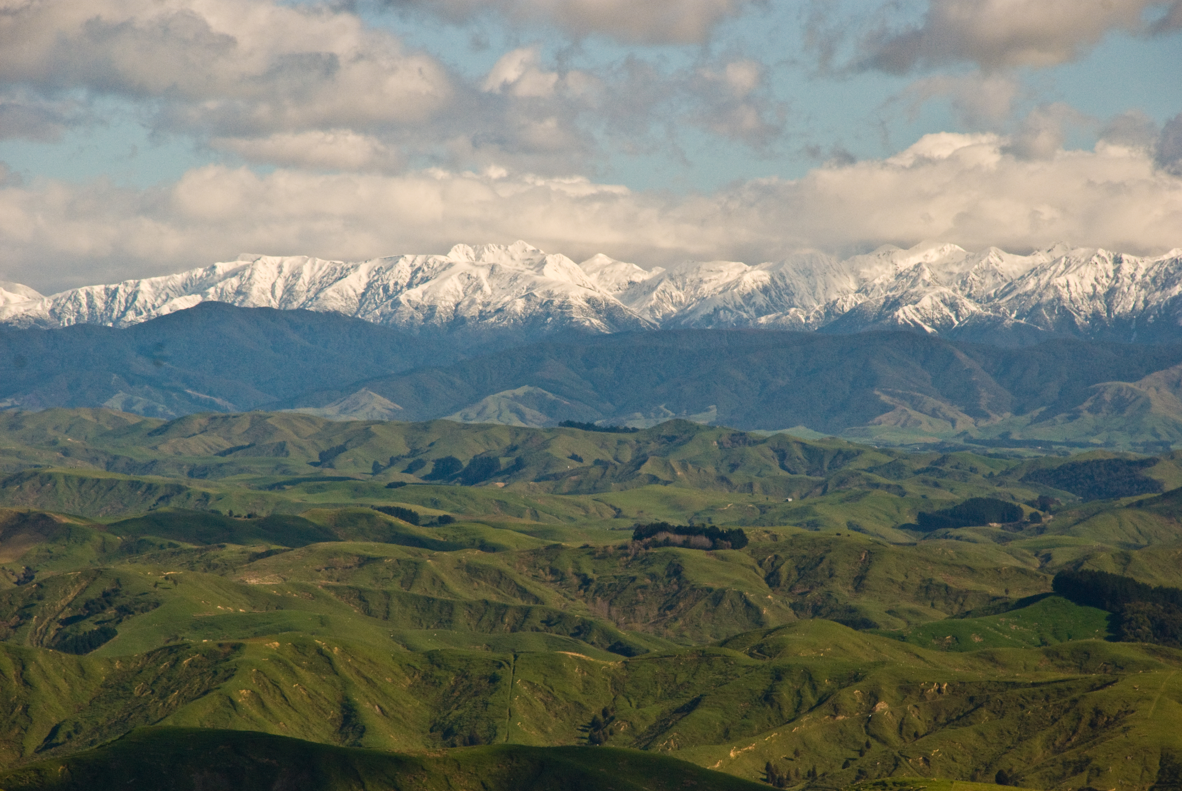 Tararuas from Pori Rd., near Tiraumea, Wairarapa, New Zealand, August 2008